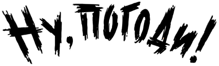 Logo of the Russian animated series Nu, pogodi! (Ну, погоди!) by Soyuzmultfilm (since 1969). The logo's appearance varies, but is generally kept in this style.